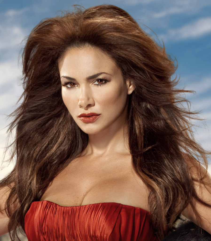 Patricia Michelle De León (born January 2 in Panama City, Panama) is a actress, model and television host. Patricia De León is a big supporter for People for the Ethical Treatment of Animals (PETA) in the Hispanic community and believes in spreading the word about the benefits of being a vegetarian. She currently plays an active role in stopping bullfights around the world and was recently the image for PETA's campaign against bullfights portrayed by photographer Kike San Martín.